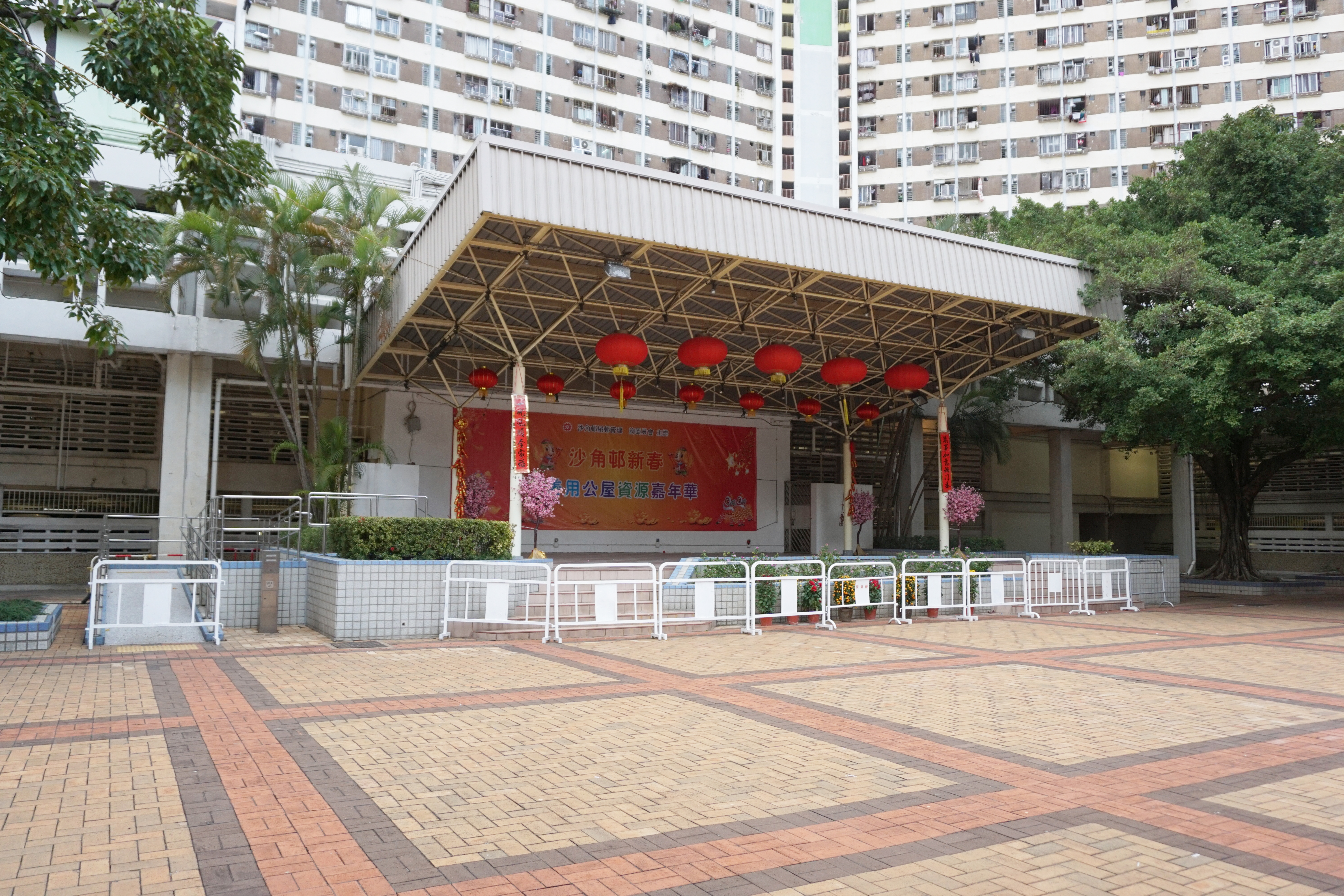 Sha Kok Estate in Sha Tin Wai, Hong Kong.